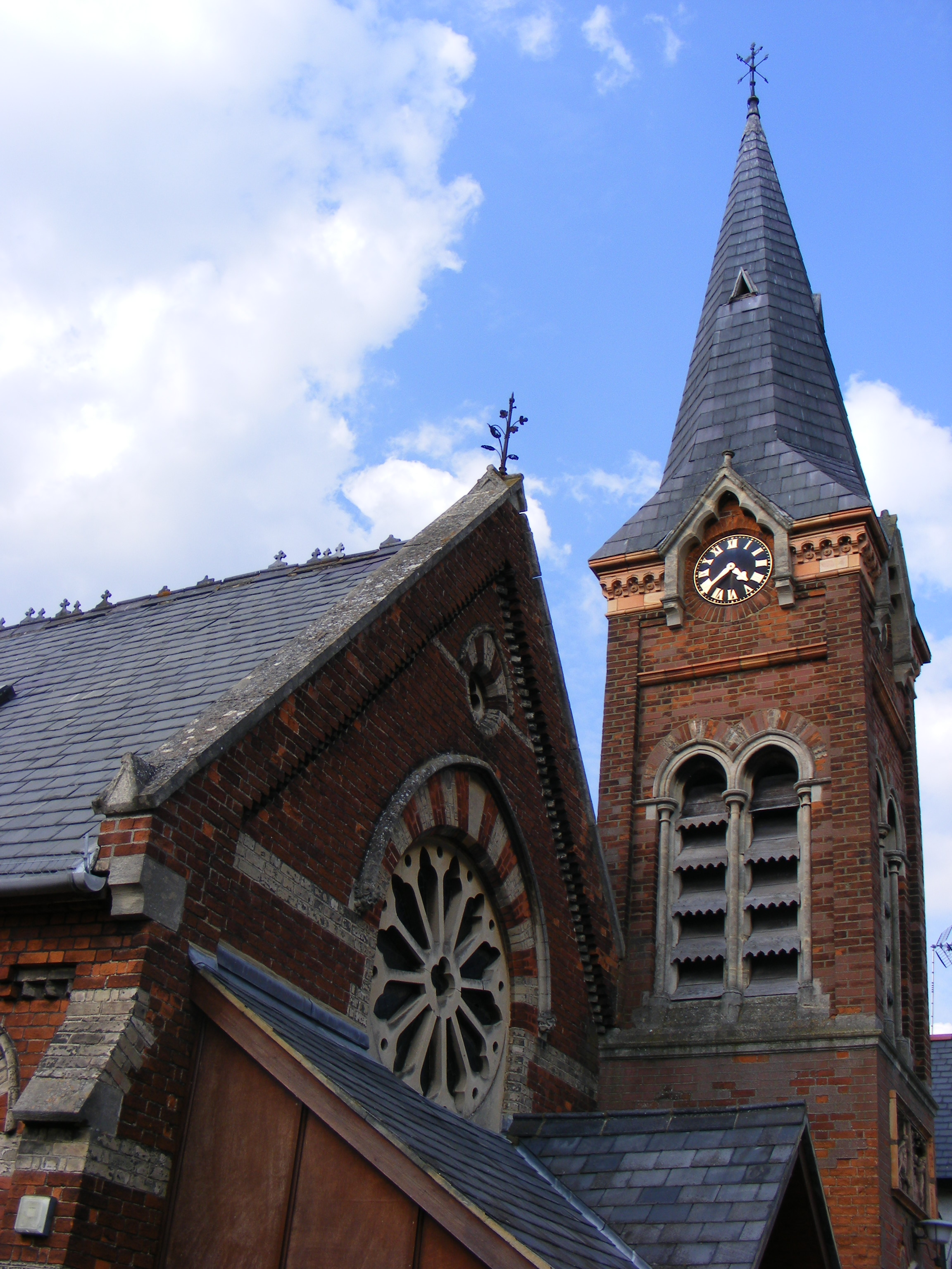 Tower, spire and rose window of Wraysbury Baptist Chapel, Berkshire (formerly Buckinghamshire)